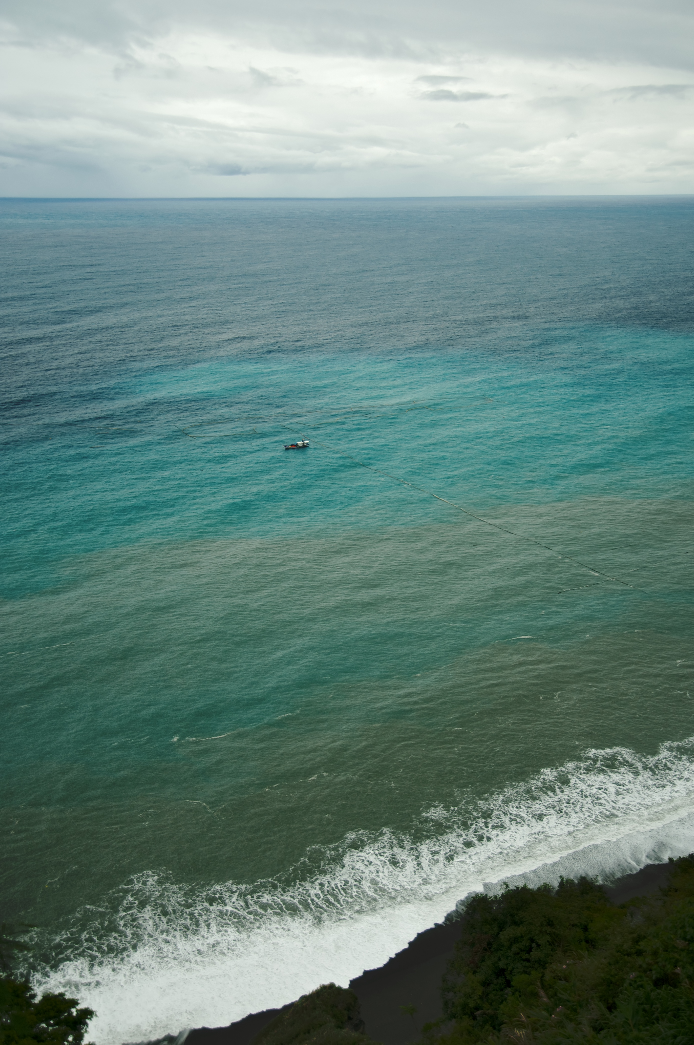 Fixed-net fishing (set-net fishing) along the east shore littoral zone as seen from the SuHua Highway, a scenic drive on the east coast of Taiwan